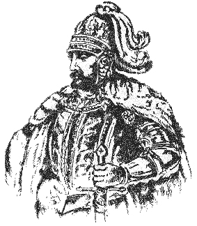 Liubartas